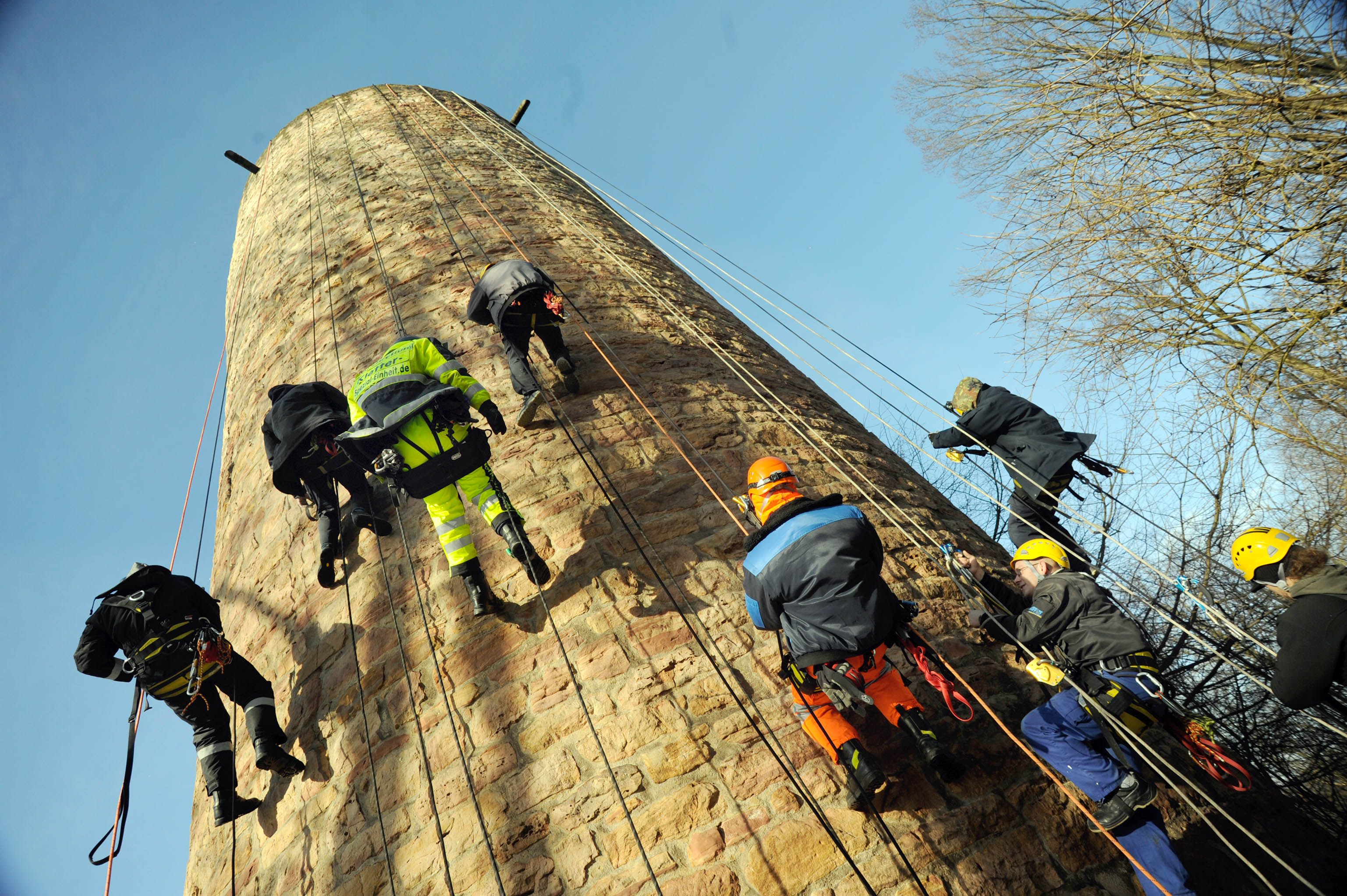 Training der Berufskletterschule der Kletter-Spezial-Einheit auf der Burgruine Stolzenberg in Bad Soden-Salmünster am 11.02.2009.